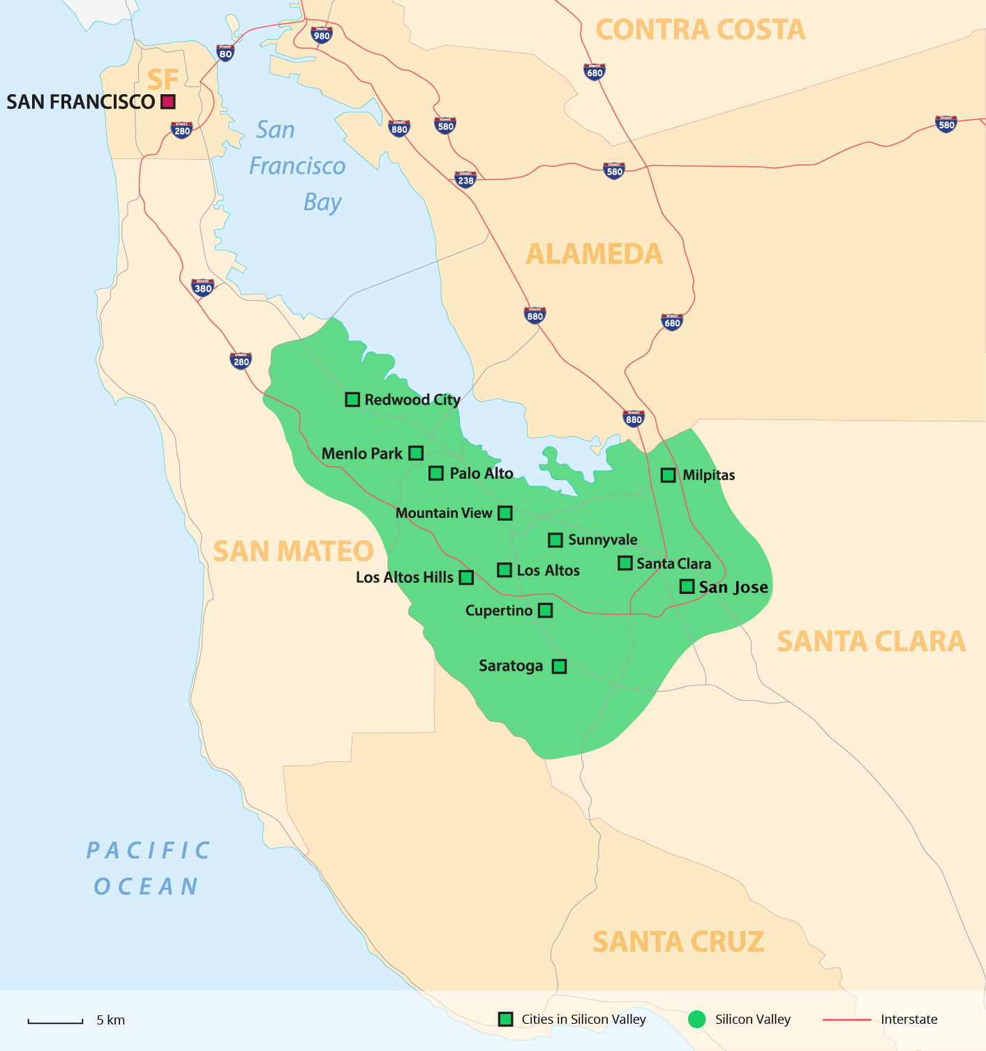 Silicon Valley is an extensive industrial area south of San Francisco. The expansion is shown in green, with cities that are part of the area.